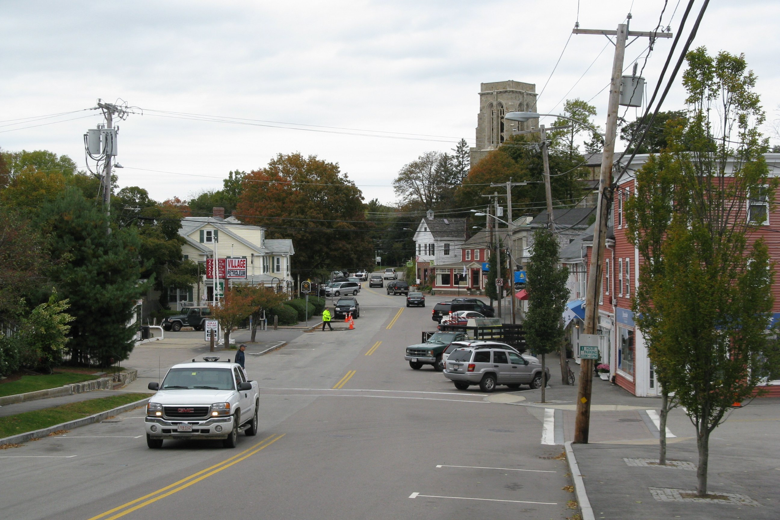 South Main Street, Cohasset Massachusetts